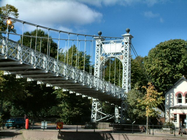 Queens Park Suspension Bridge The only footbridge across the river Dee in Chester.